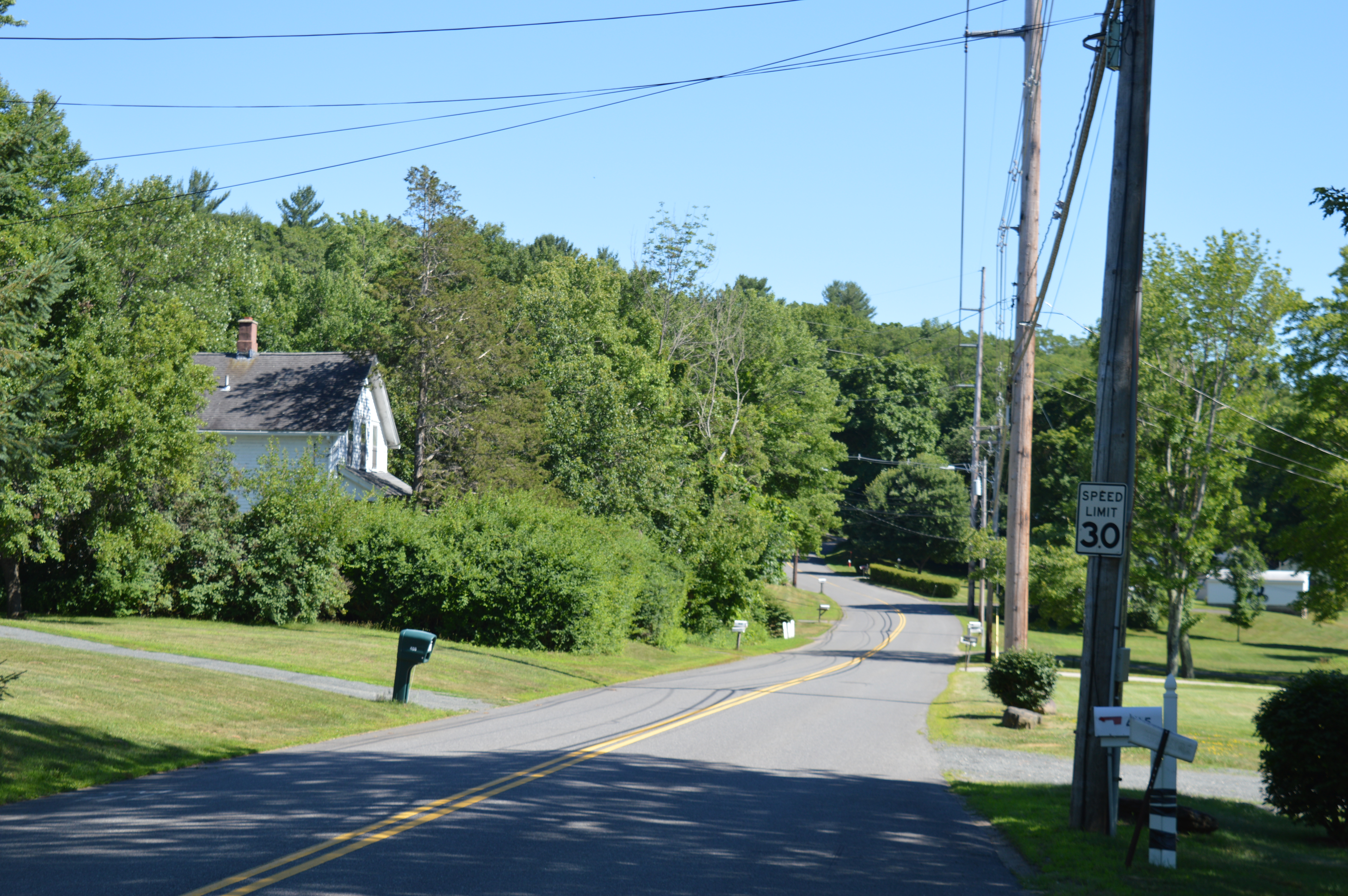 A typical landscape of Rock Valley Road in the neighborhood Rock Valley, Holyoke, Massachusetts.